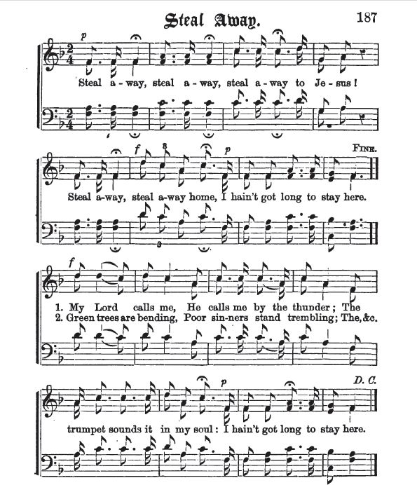 Page from old song book published in 1873, is public domain